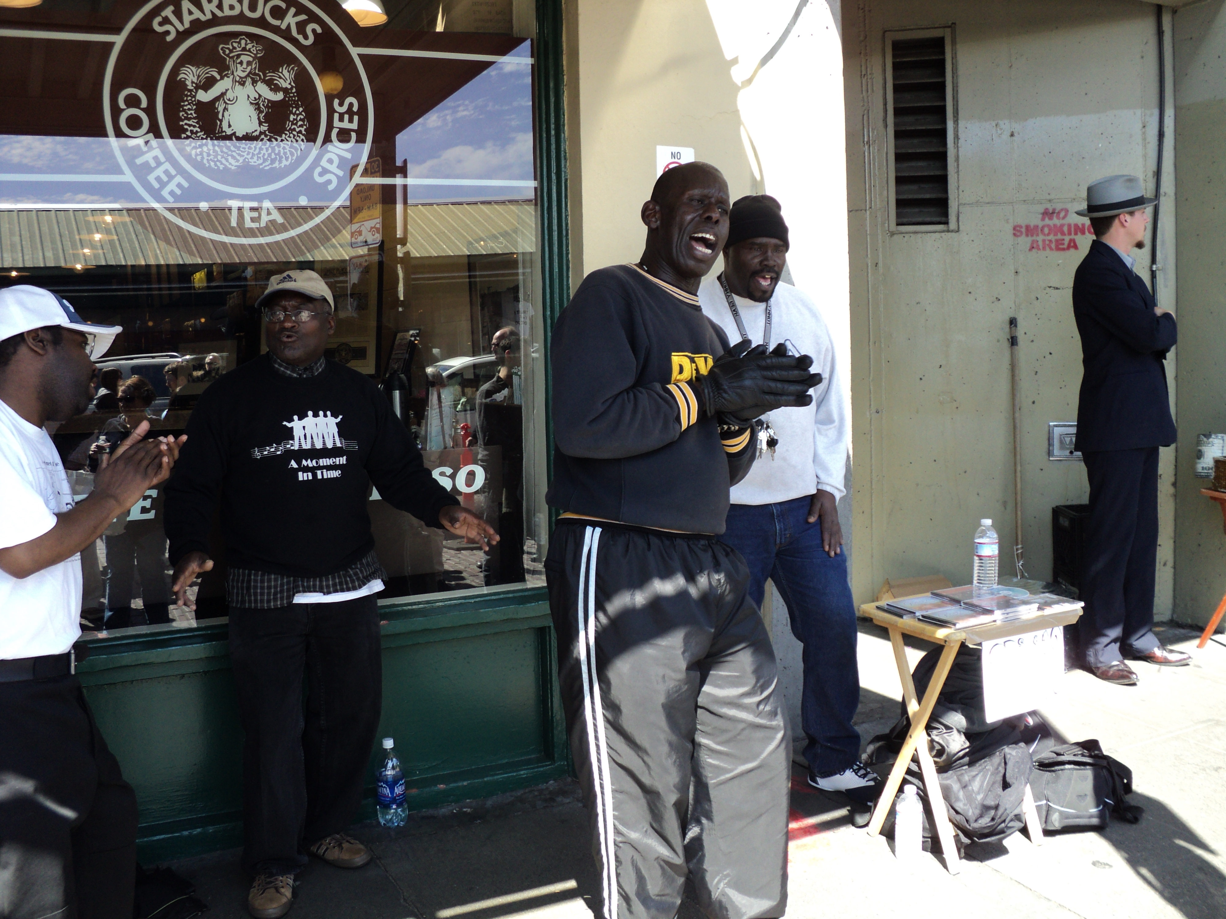 Gospel singers on the Pike Place Market, Seattle, Washington.